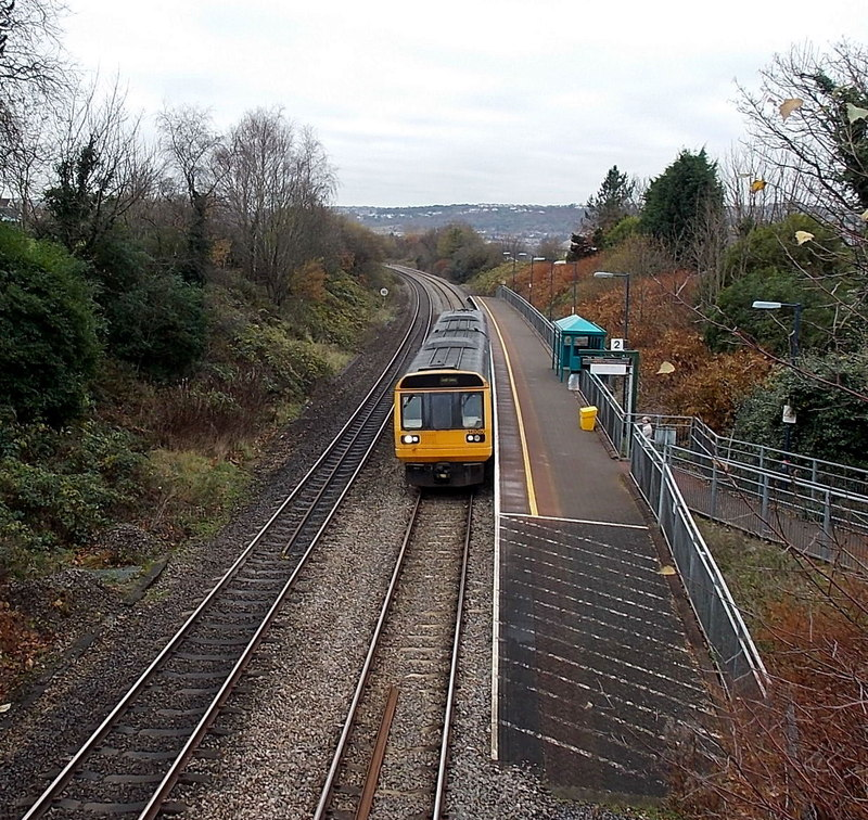 Train from Swansea at Llansamlet railway station The train is at platform 2 on a Swanline service to Cardiff. Platform 1 Link is behind the camera.